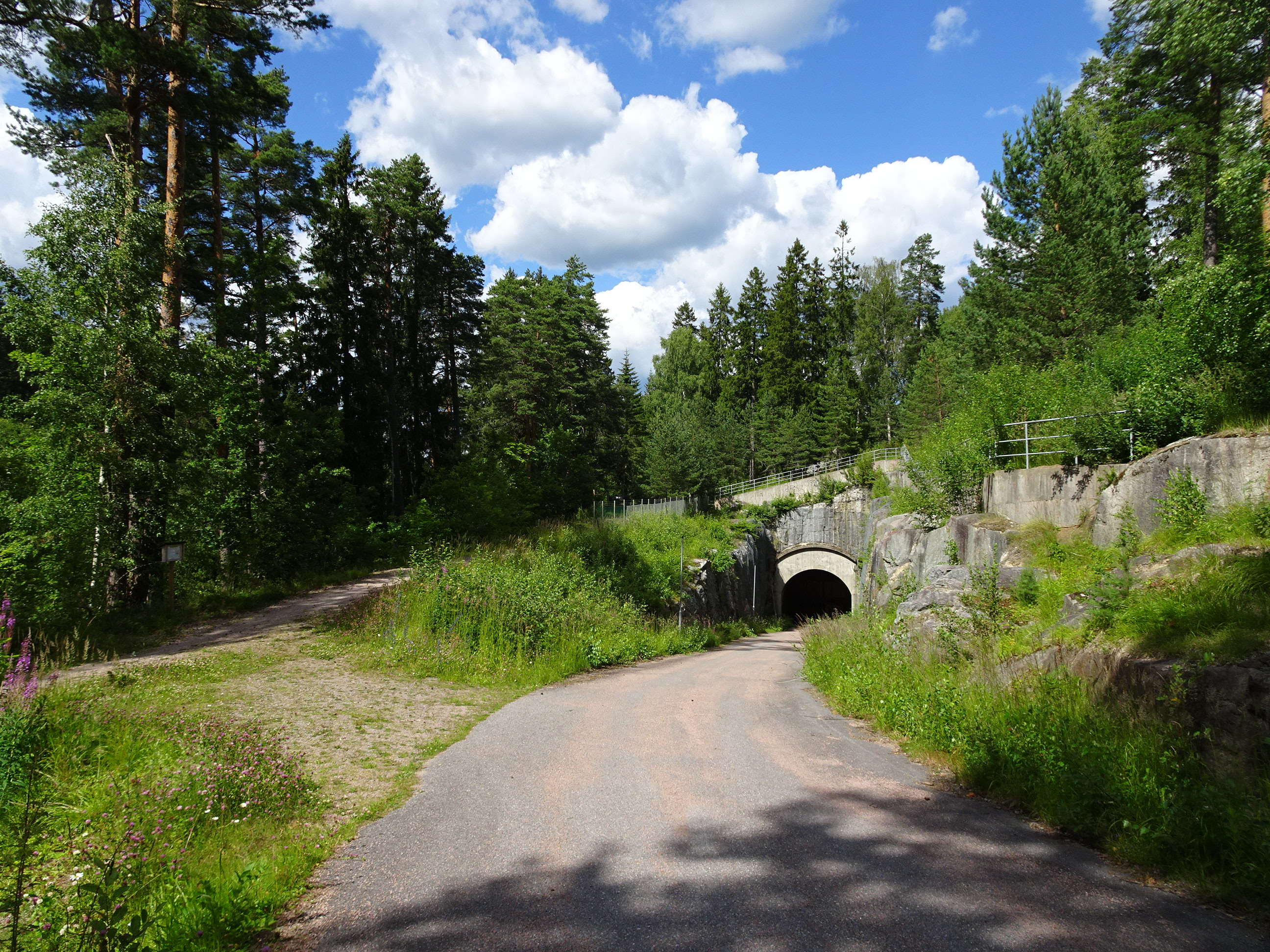 The entrance to the underground Hallstahammar hydroelectric power station. Sweden.